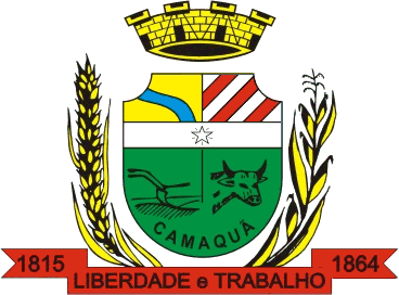 Coat of arms of the city of Camaquã, Rio Grande do Sul, Brazil.